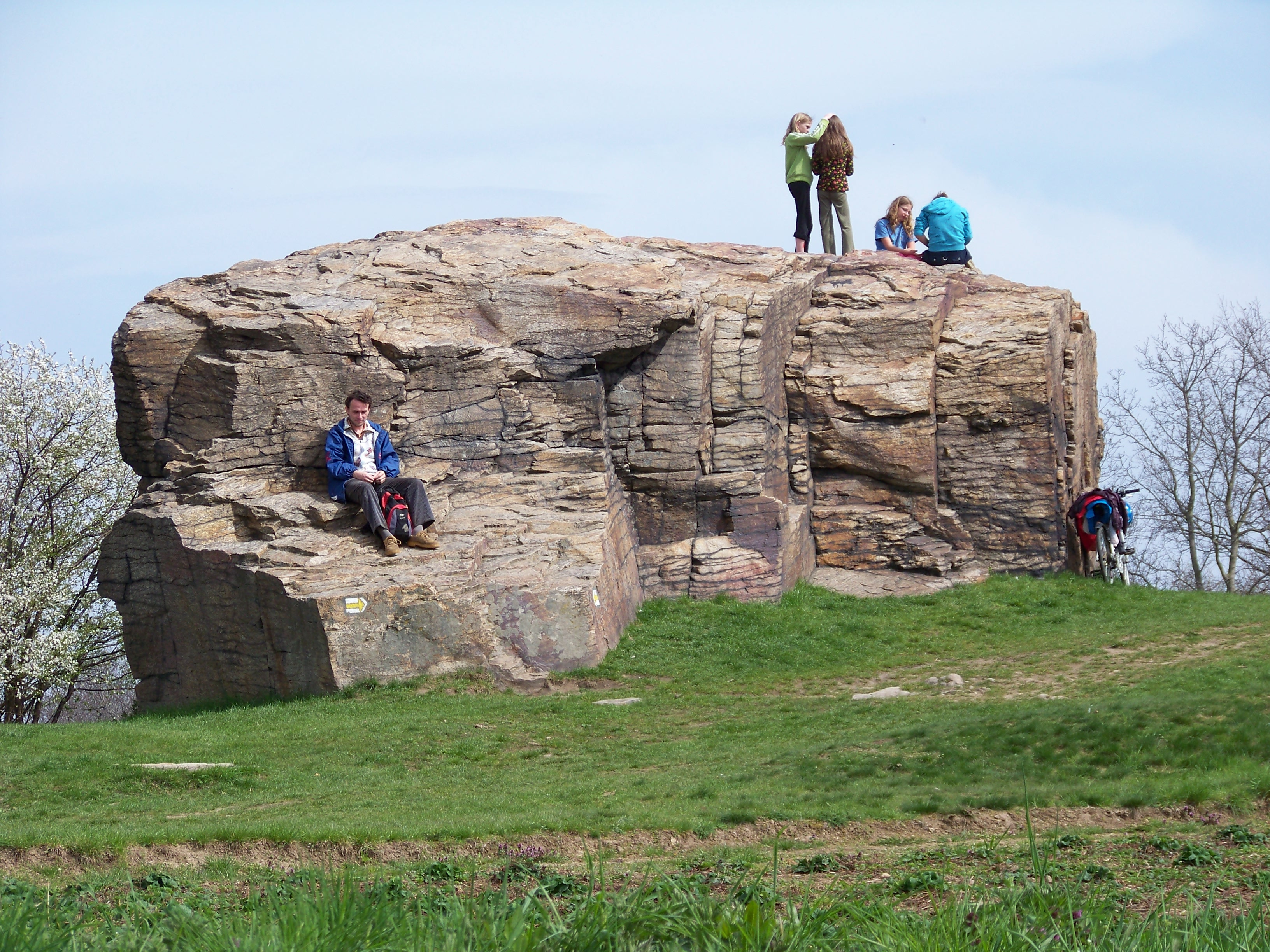 Kouřim, Kolín District, Central Bohemian Region, the Czech Republic. Lech's Stone. - Google Maps - Google Earth